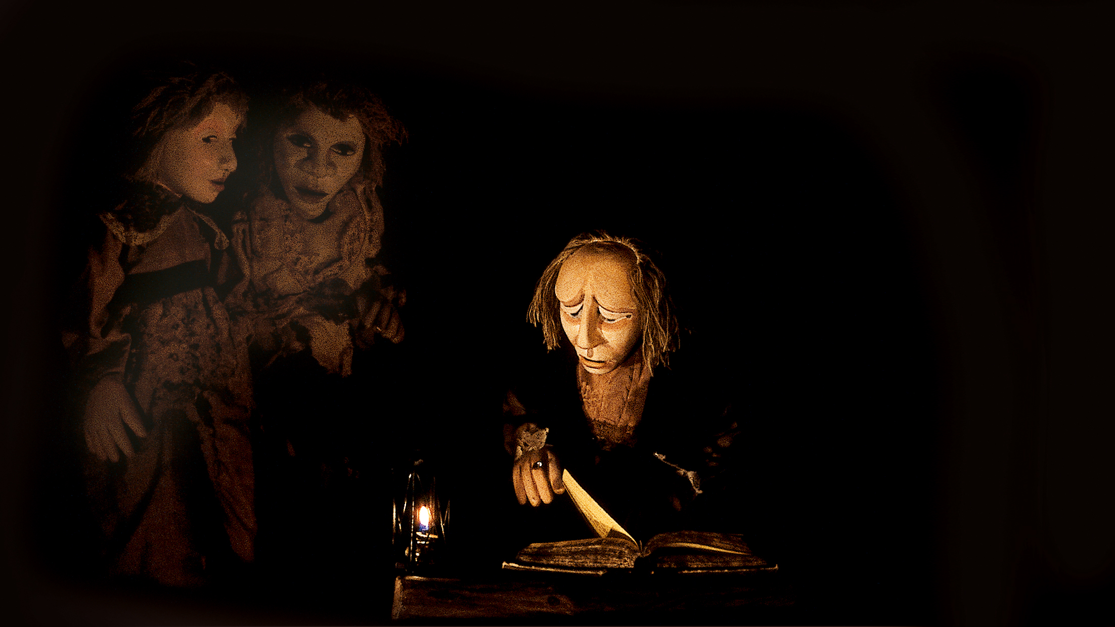 Prospero in The Tempest, performed by the Swedish puppet theater company Dockteaterverkstan